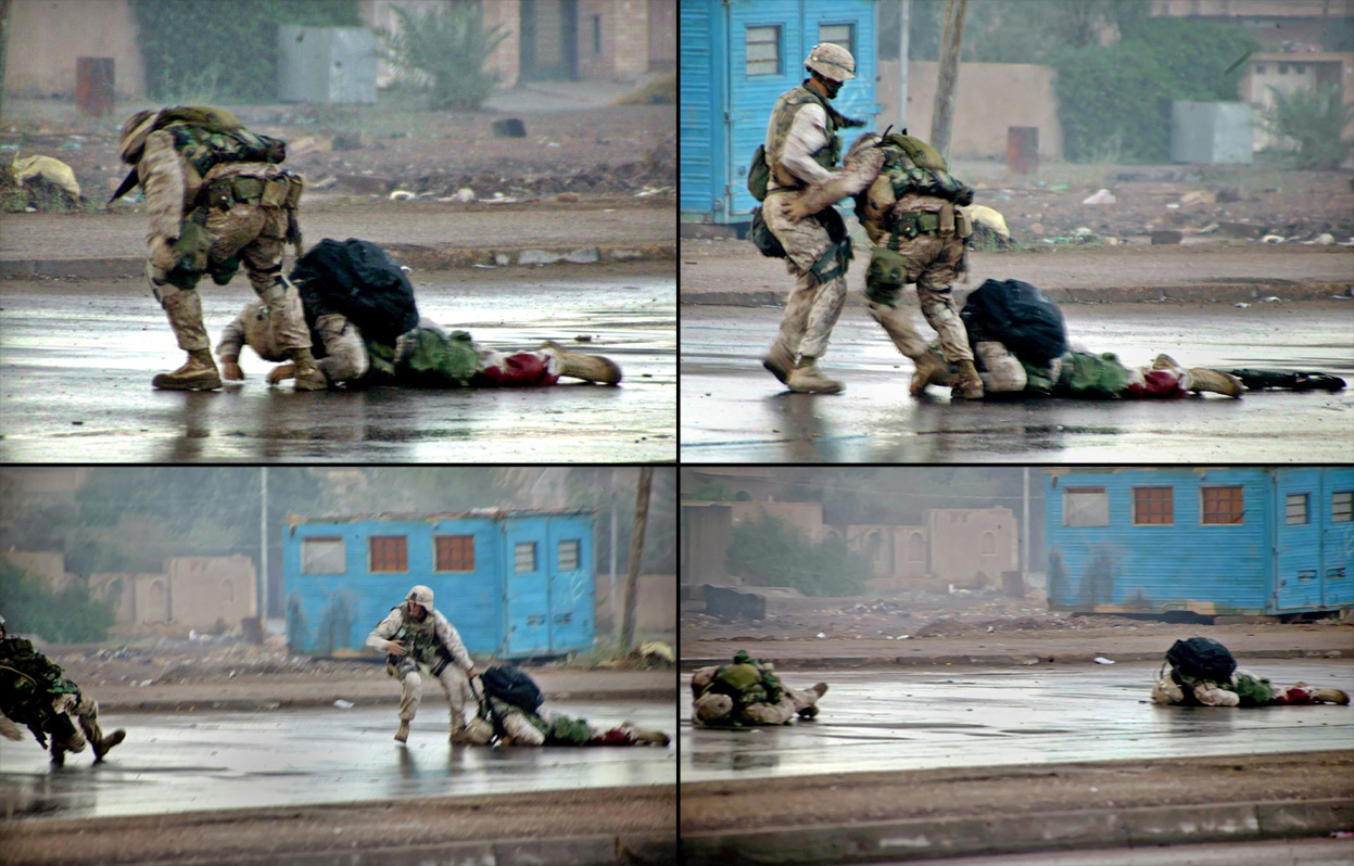 Original Caption: "Fallujah, Iraq (Nov. 9, 2004) - Gunnery Sgt. Ryan P. Shane (center), platoon Gunnery Sergeant assigned to Company B, 1st Battalion 8th Marine Regiment (1/8), Regimental Combat Team 7, and another member of 1/8, recover a fatally wounded Marine, Sergeant Lonny Wells, while under fire during Operation Al Fajr. Seconds later Shane was wounded by enemy fire. Operation Al Fajr was an offensive operation to eradicate enemy forces within the city of Fallujah in support of continued security and stabilization operations in the Al Anbar province of Iraq. U.S. Marine Corps photo by Cpl. Joel A. Chaverri." Photographing Fallujah